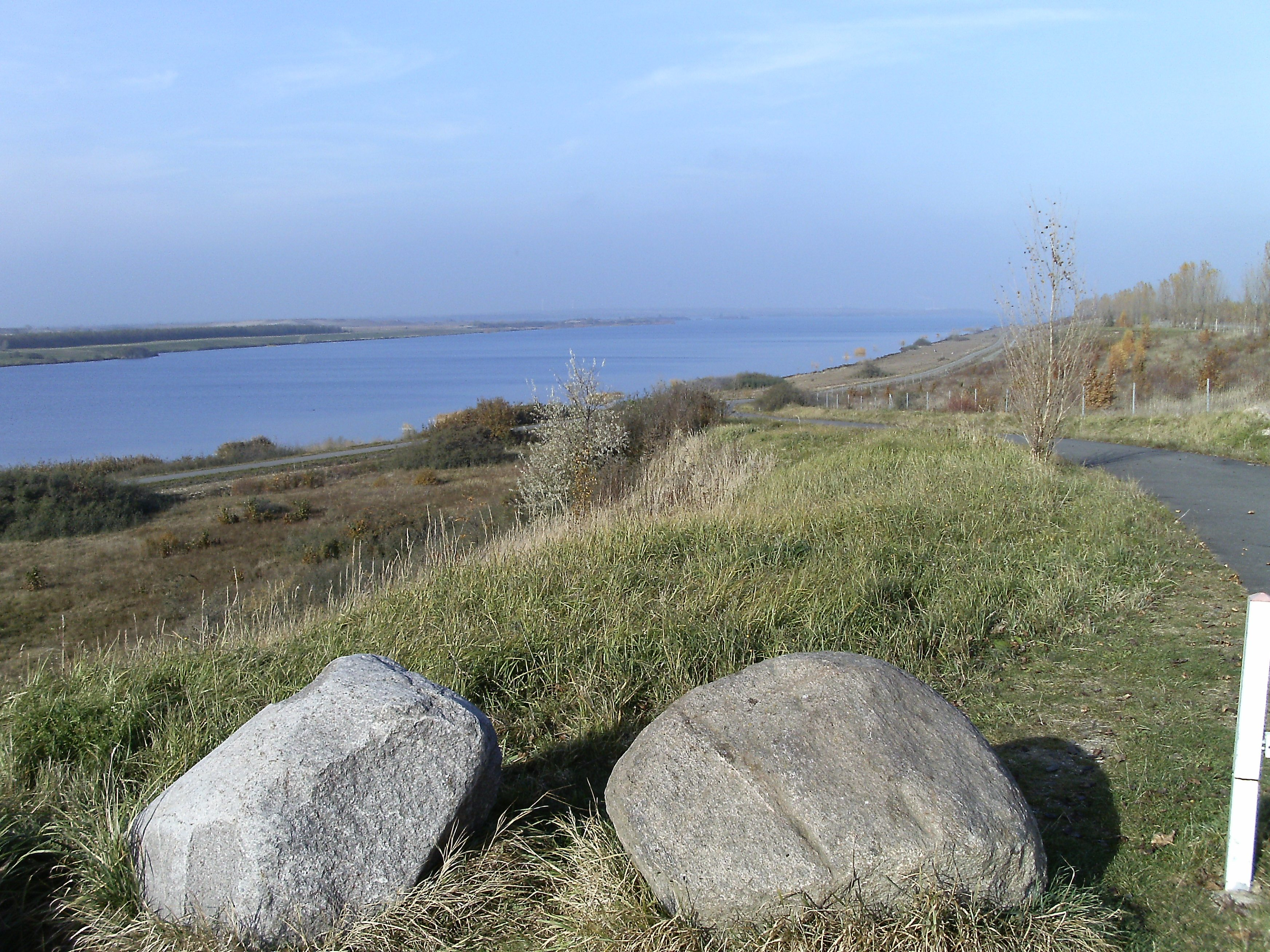 Werbelin Lake, a new lake at the place of an old opencast mine in Nordsachsen district (Saxony)